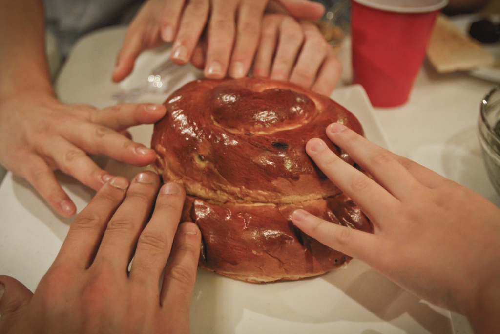 Shabbat dinner at a Moishe House